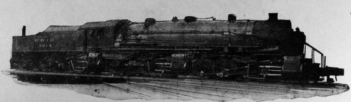 Postcard photo of the Matt H. Shay, the first of the Erie's three 2-8-8-8-2 triplex locomotives. Built by Baldwin in 1914 and used to help trains up the Susquehanna grade. The locomotive, at the time the world's most powerful, was capable of pulling 450 loaded freight cars or a train that was 4 miles long. The problem with the use of a locomotive with this kind of power was that the freight cars of the era weren't able to withstand it; they also had various mechanical problems while in service. While the these locomotives were initially bought to be used in freight service, they wound up being used as "helper" locomotives within a very short period of time. Baldwin built the last of this type of locomotive in 1916, with only 4 being ordered. One went to the Virginian Railroad and 3 were bought by Erie.